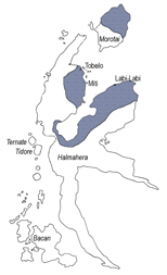 Map of Halmahera island, Indonesia, showing Tobelo-speaking locations